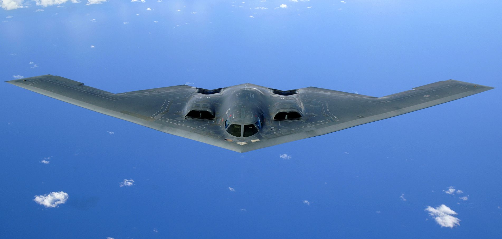 A B-2 Spirit soars after a refueling mission over the Pacific Ocean on Tuesday, May 30, 2006. The B-2, from the 509th Bomb Wing at Whiteman Air Force Base, Mo., is part of a continuous bomber presence in the Asia-Pacific region. (U.S. Air Force photo/Staff Sgt. Bennie J. Davis III)